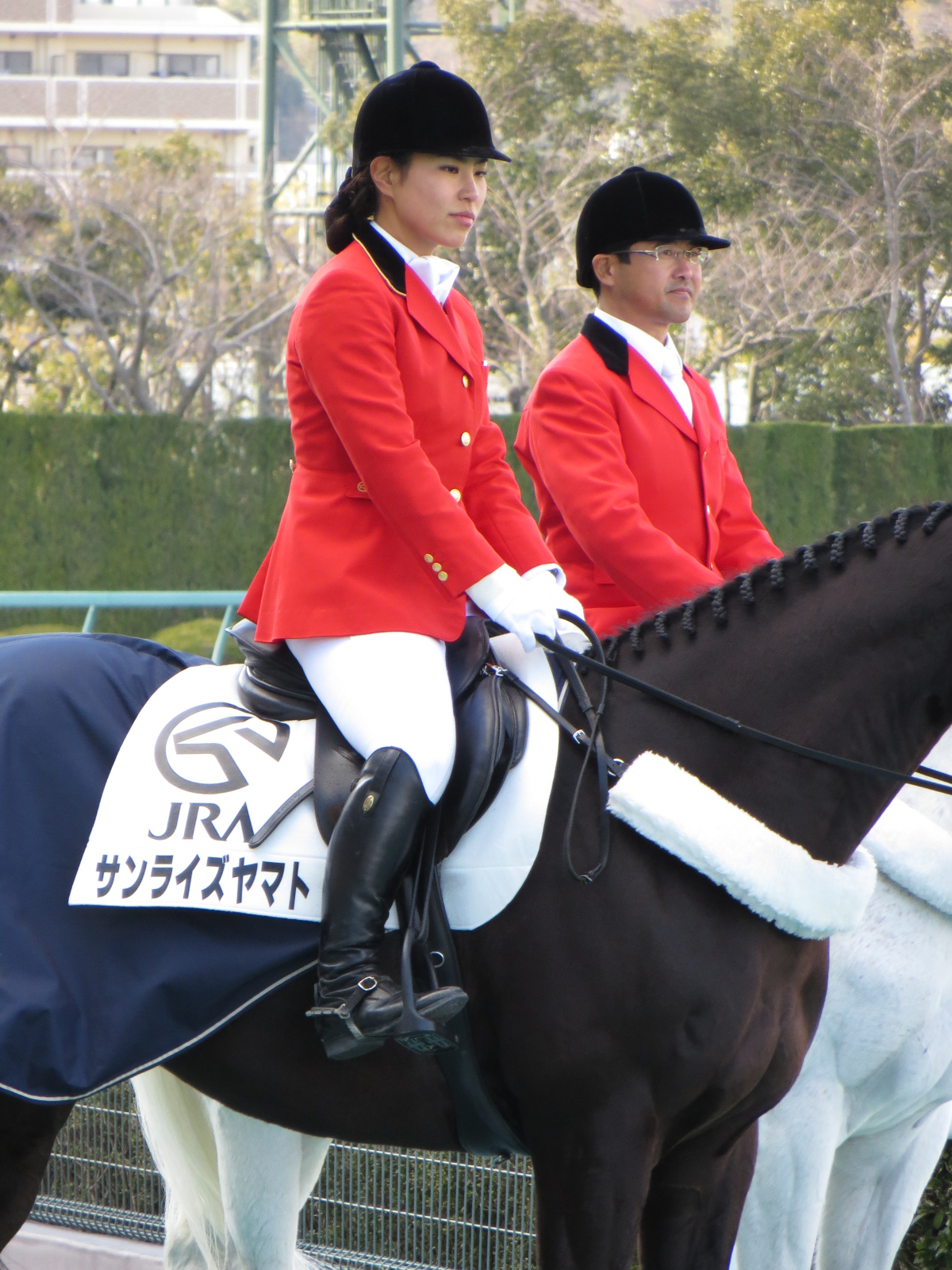 Horse riding clothes women dignified Hanshin Racecourse.